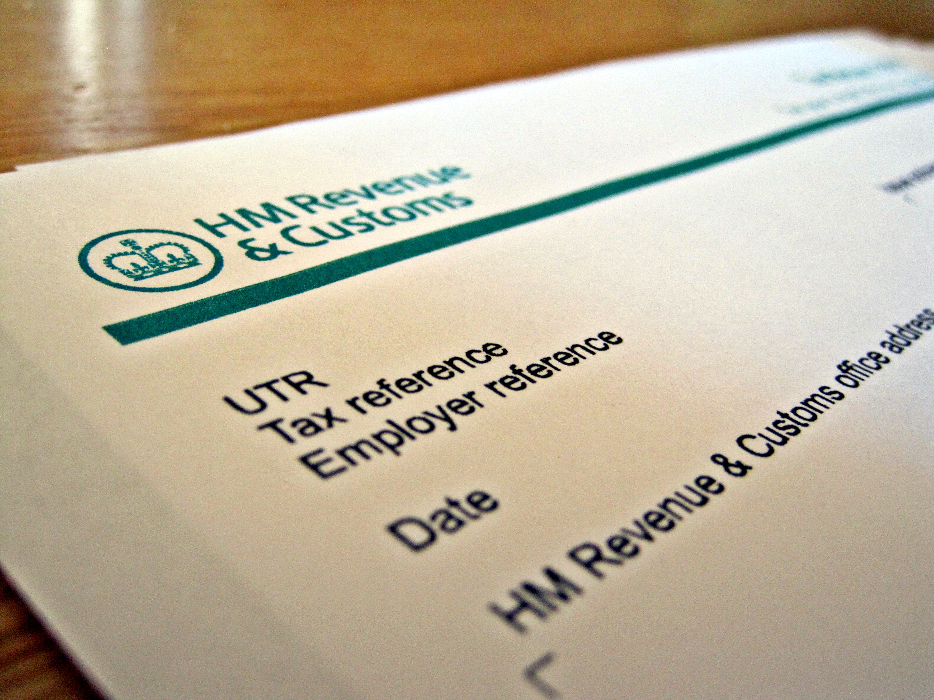 Part of a HMRC Self Assessment tax return